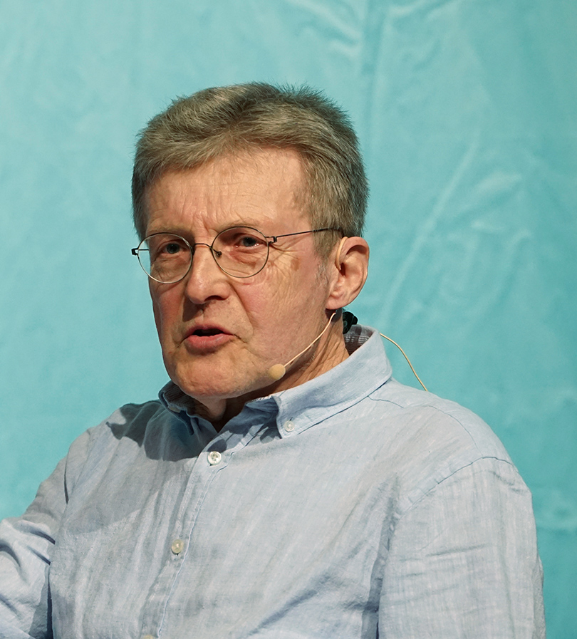 Søren Kolstrup - Danish historian, writer and politician - at the historic event "Historiske Dage 2019", Copenhagen, Denmark